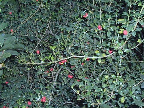 Alyxia buxifolia